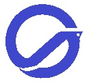 Saka Hiroshima chapter